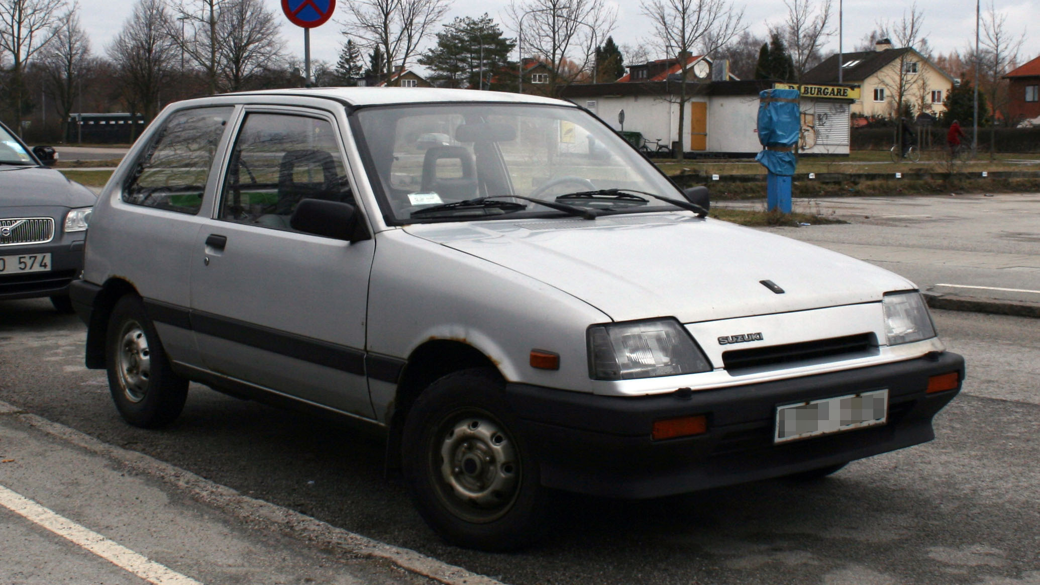 1987 Suzuki Swift 1,3.